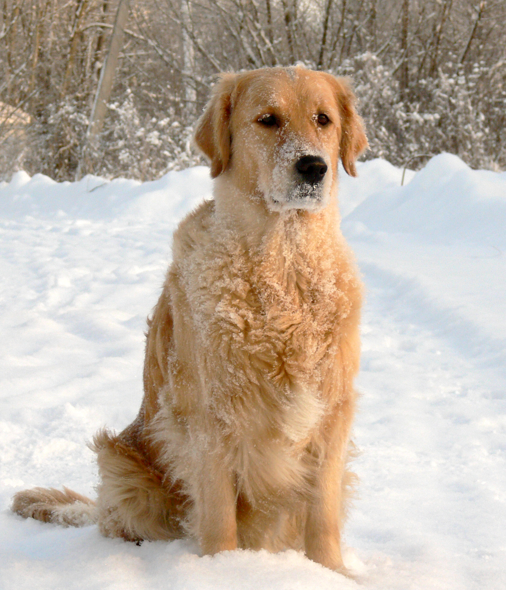 golden retriever Zvezda Severa Seniorita Suerte